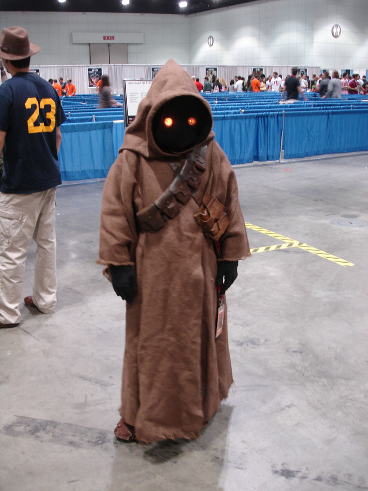 Star Wars Celebration IV - Jawa fan costume